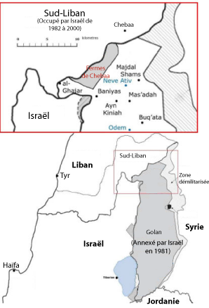 translation in french of Image:Shebaa Farms.jpg